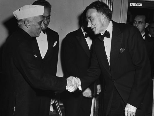 Prime Minister Nehru greets Philip Jessup, Ambassador-at-Large. From left, Prime Minister Jawaharlal Nehru, Ambassador-at-Large Philip Jessup. From album "Visit of his Excellency Jawaharlal Nehru Prime Minister of India to the United States of America"